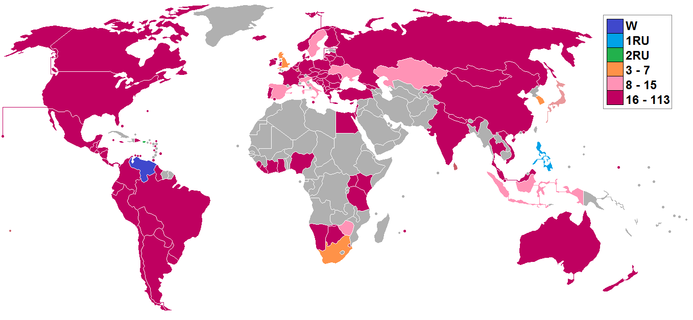 Miss World 2011 Participation and Results map